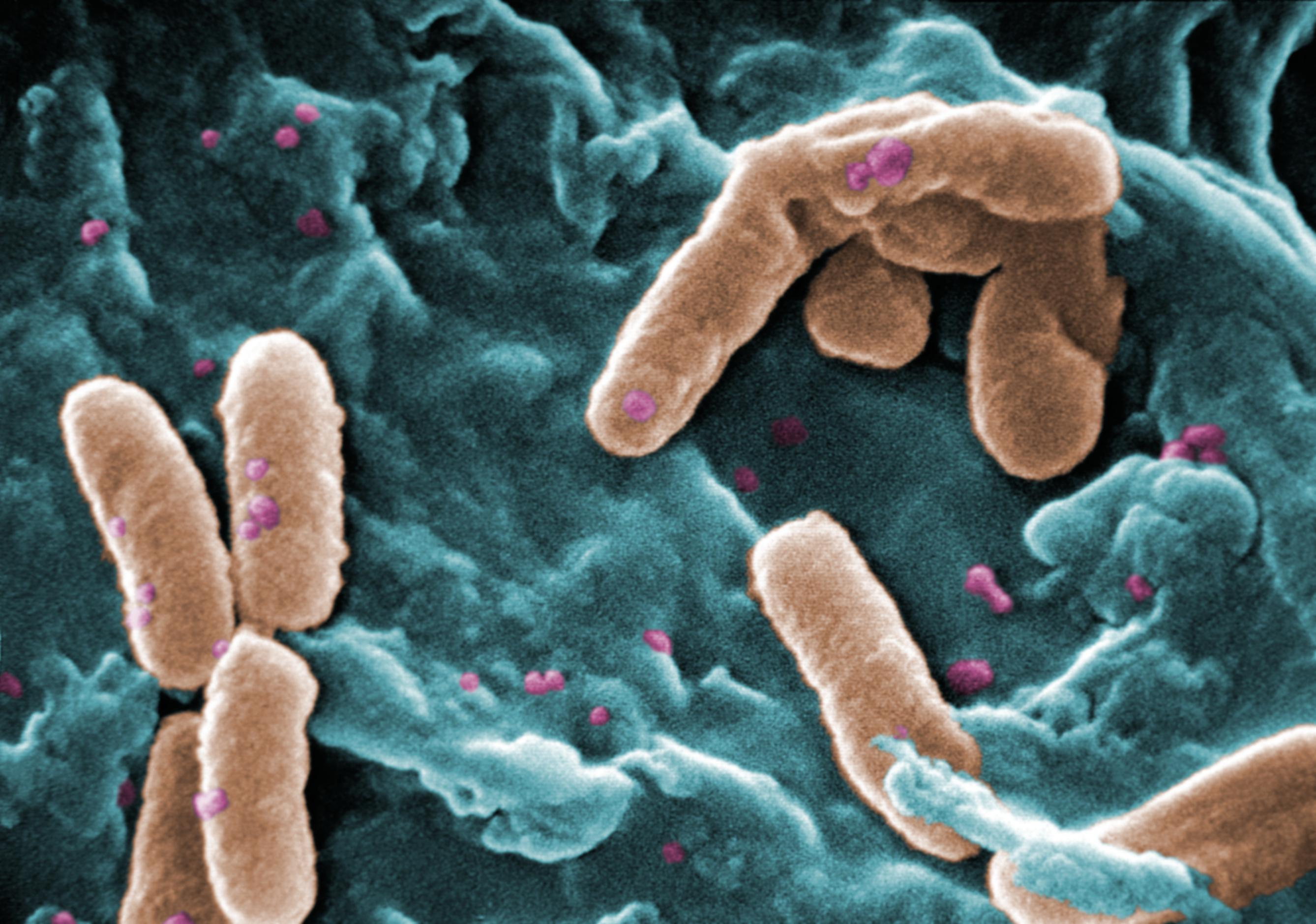 This colorized version of PHIL 232 depicts a scanning electron micrograph (SEM) of a number of Pseudomonas aeruginosa bacteria.